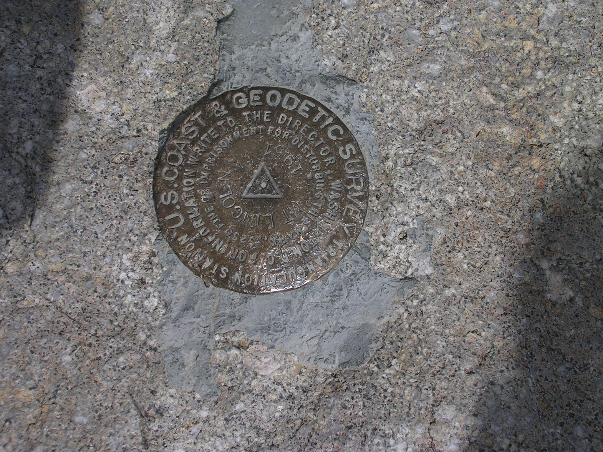 USGS Marker, Mt. Lincoln (Colorado) summit. August 15th, 2004.